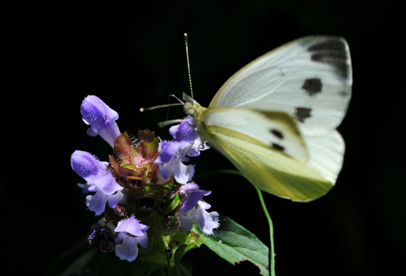 Wing upperside a False Small White (Pieris pseudorapae). Espiye, Giresun - Turkey. 395 m.